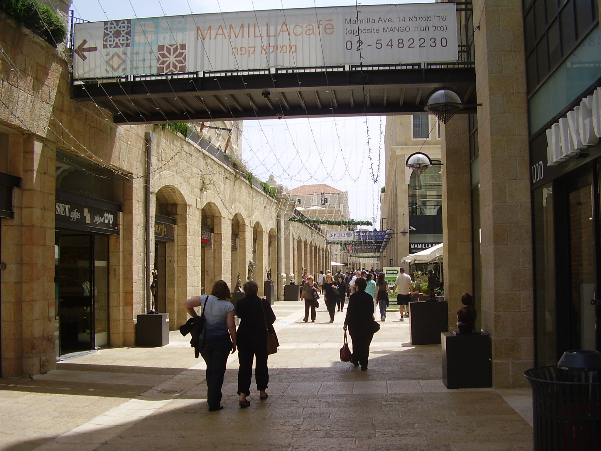 mamilla pedestrian, jerusalem